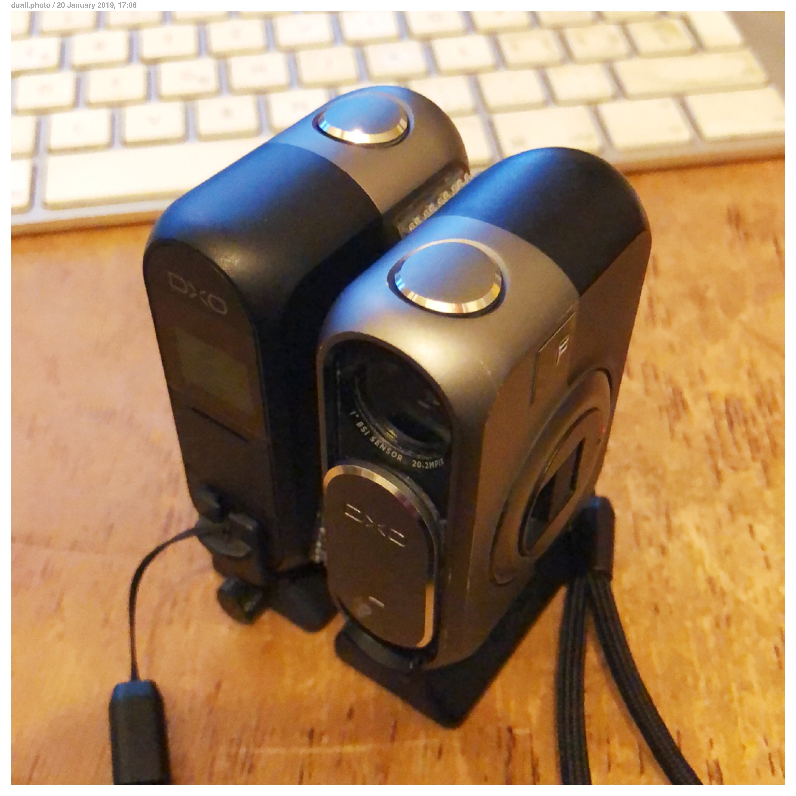 The combination of two DXO One cameras to create a highly compact portable dualcamera for high quality dual photography.